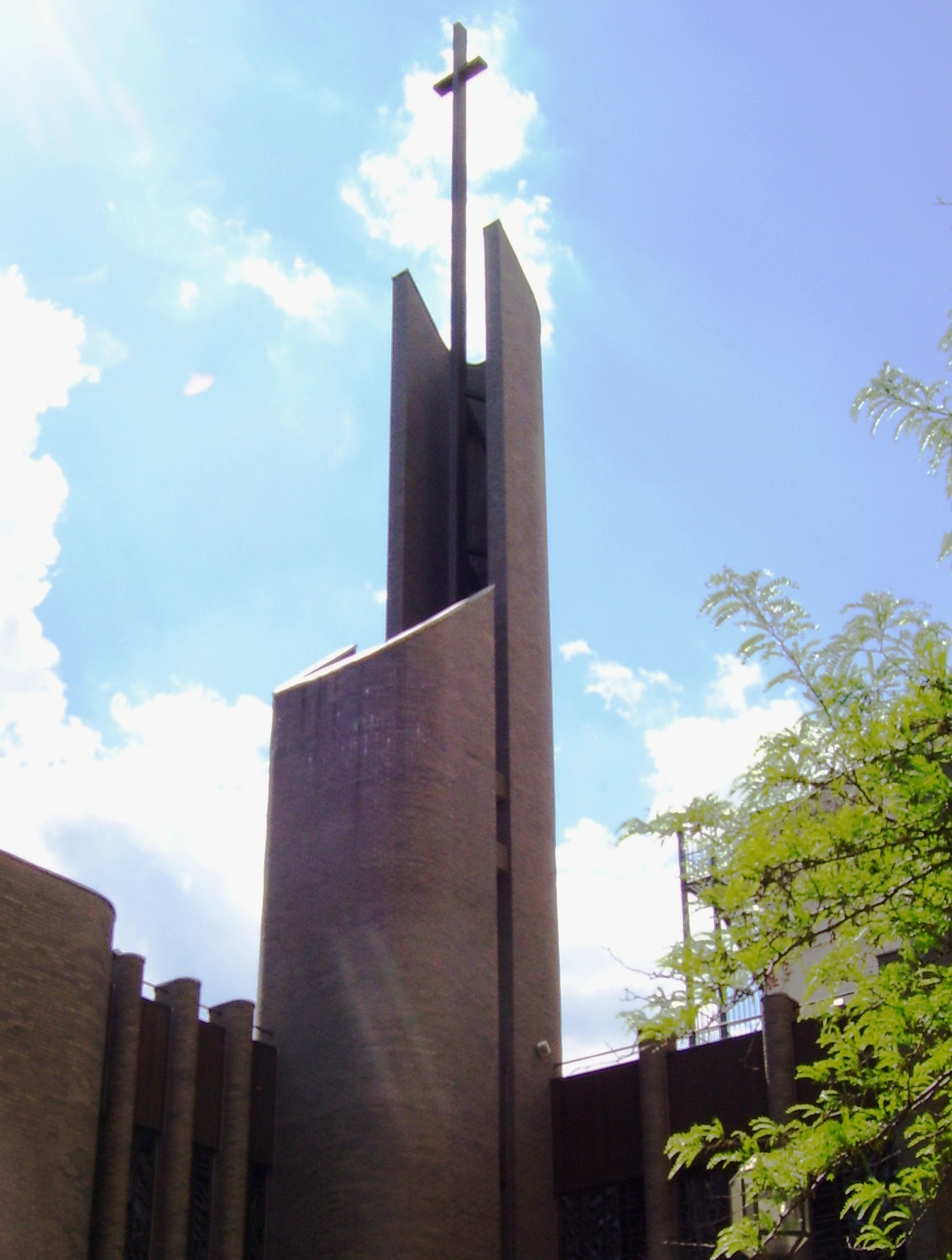 Steeple of Epiphany Roman Catholic Church in Manhattan, New York. The church was called by the AIA Guide to New York City (fourth edition, 2000) "The most positive modernist religious statement on Manhattan Island to date." (White, Norval and Willensky, Elliot. New York: Three Rivers Press)